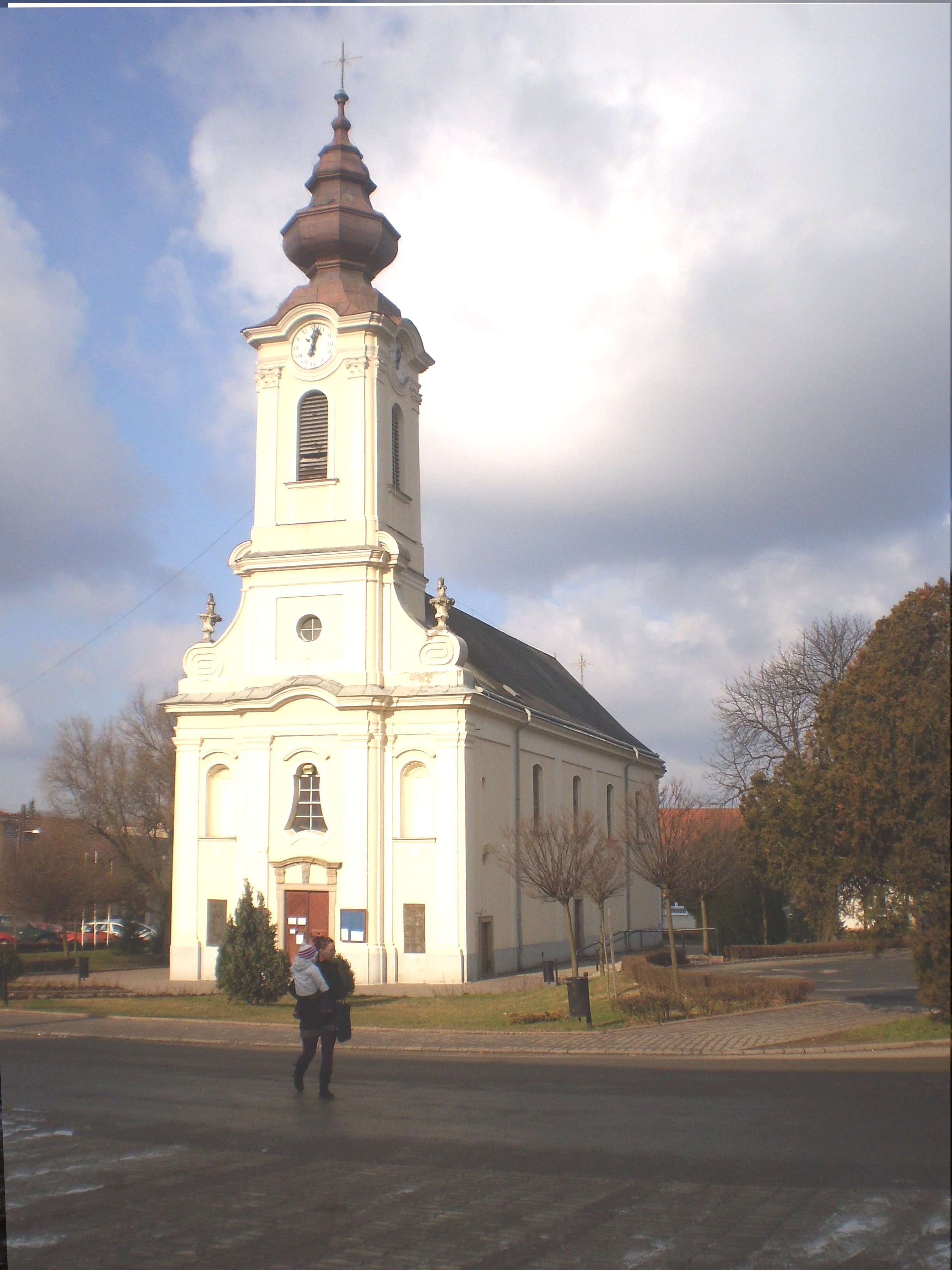 Devecser, Hungary. Church